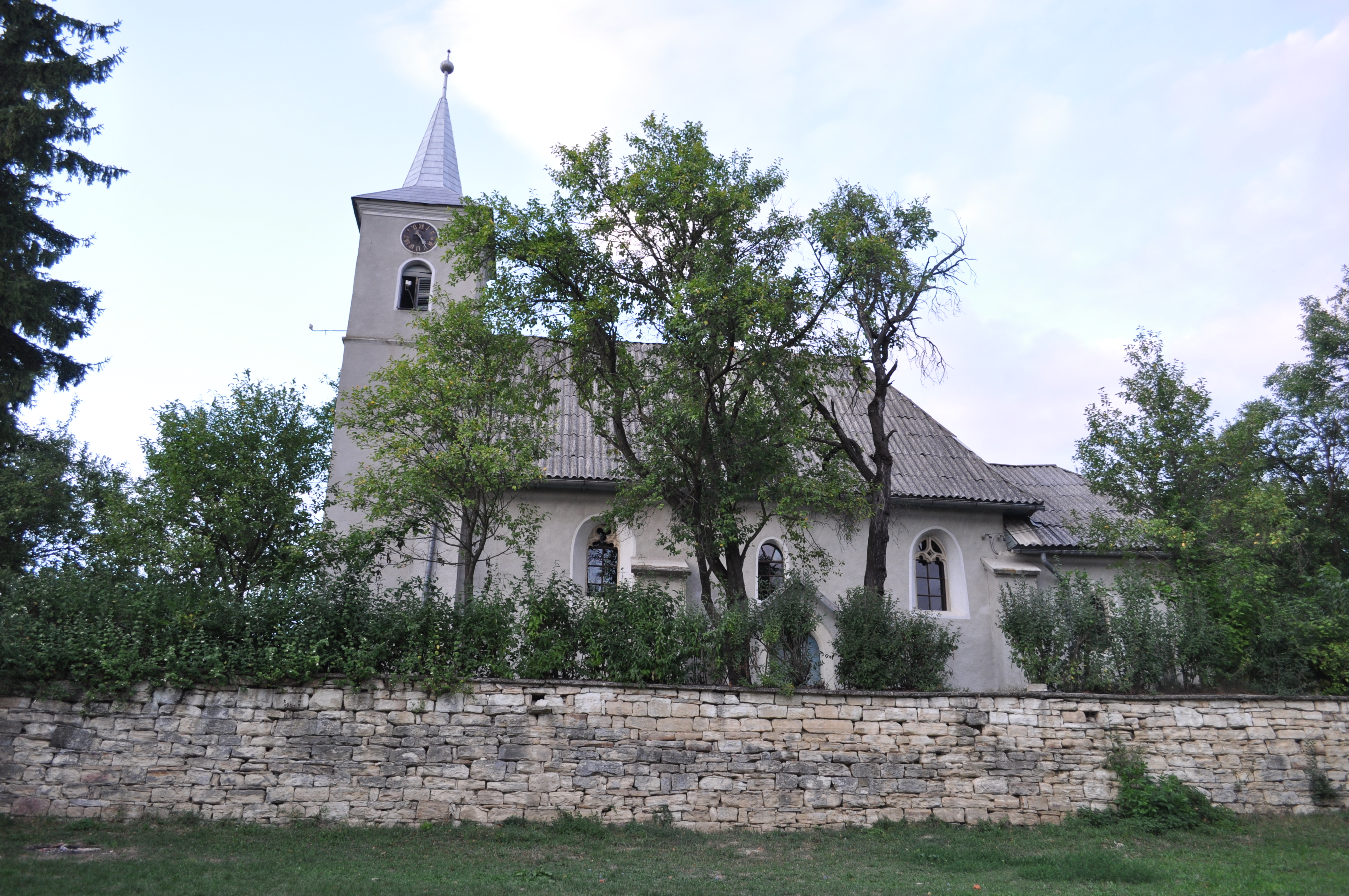 Protestant church in Chidea, Cluj countyRomână: Biserica reformată din Chidea, județul Cluj